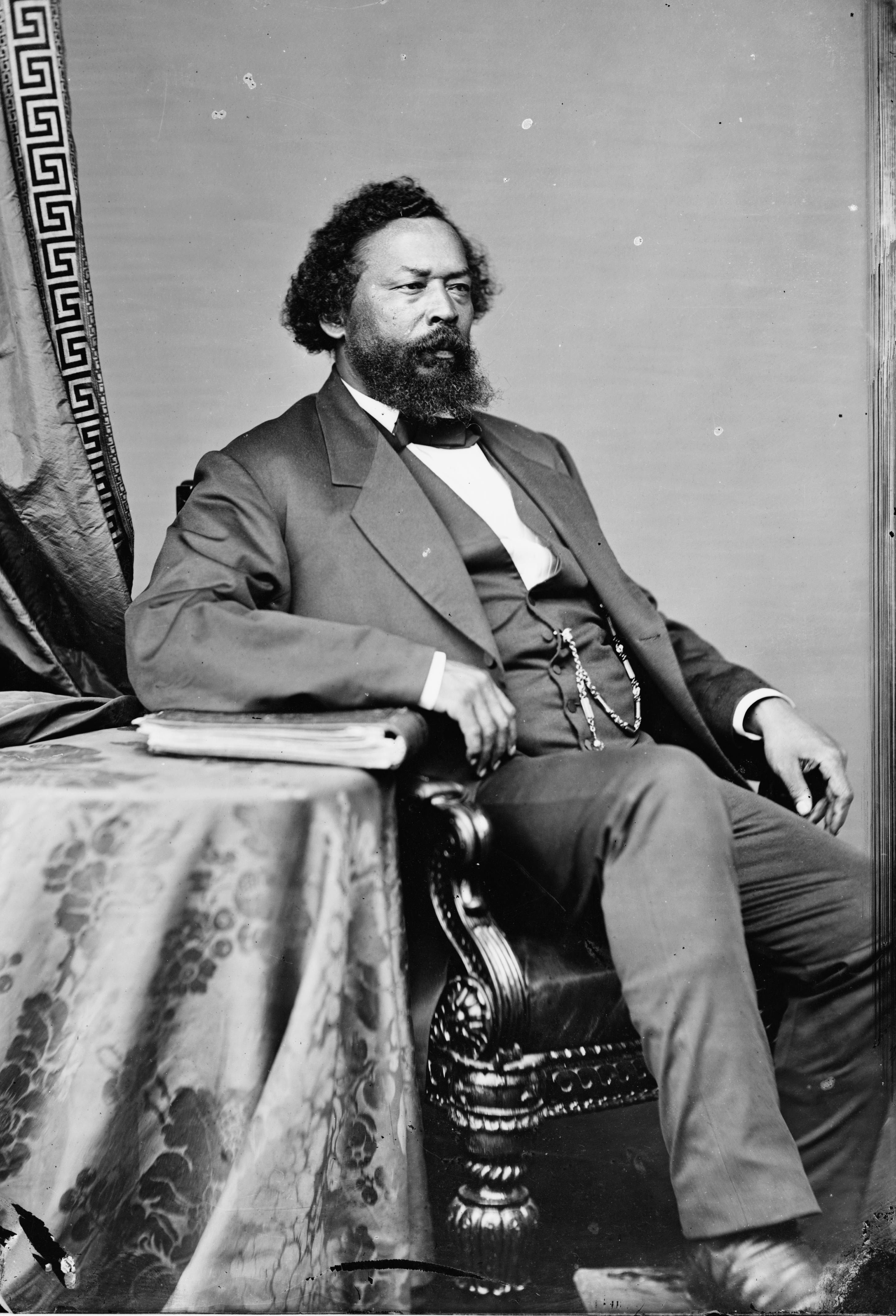 Benjamin S. Turner. Library of Congress description: "Benjamin S. Turner"